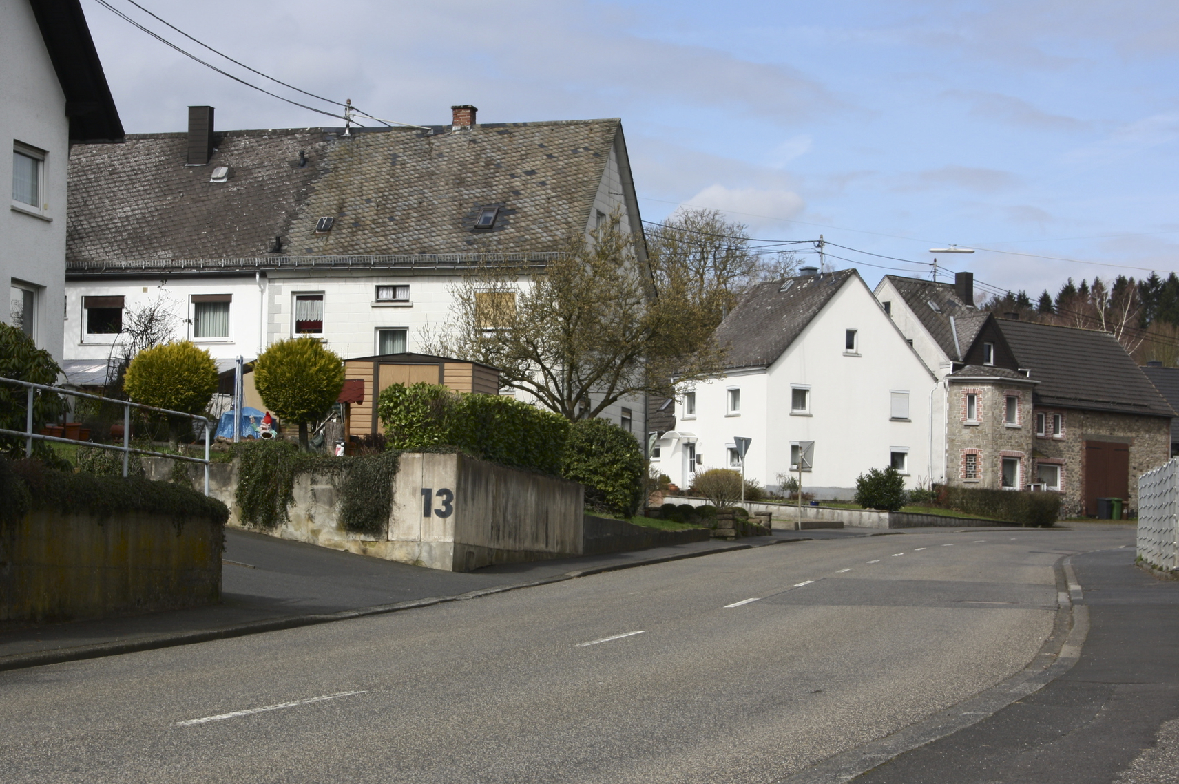 Ettinghausen, municipality of Westerwaldkreis, Rhineland-Palatinate, Germany